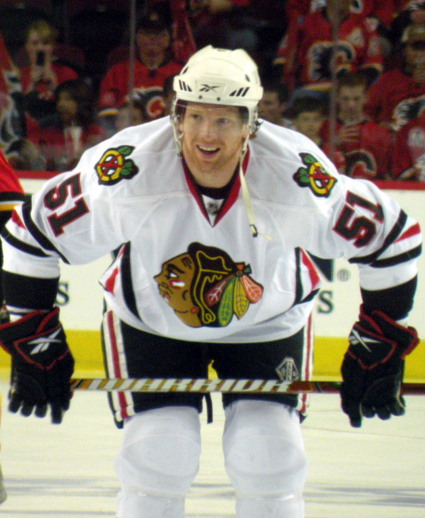 Chicago Blackhawks defenceman Brian Campbell during warm up prior to a National Hockey League playoff game against the Calgary Flames, in Calgary.